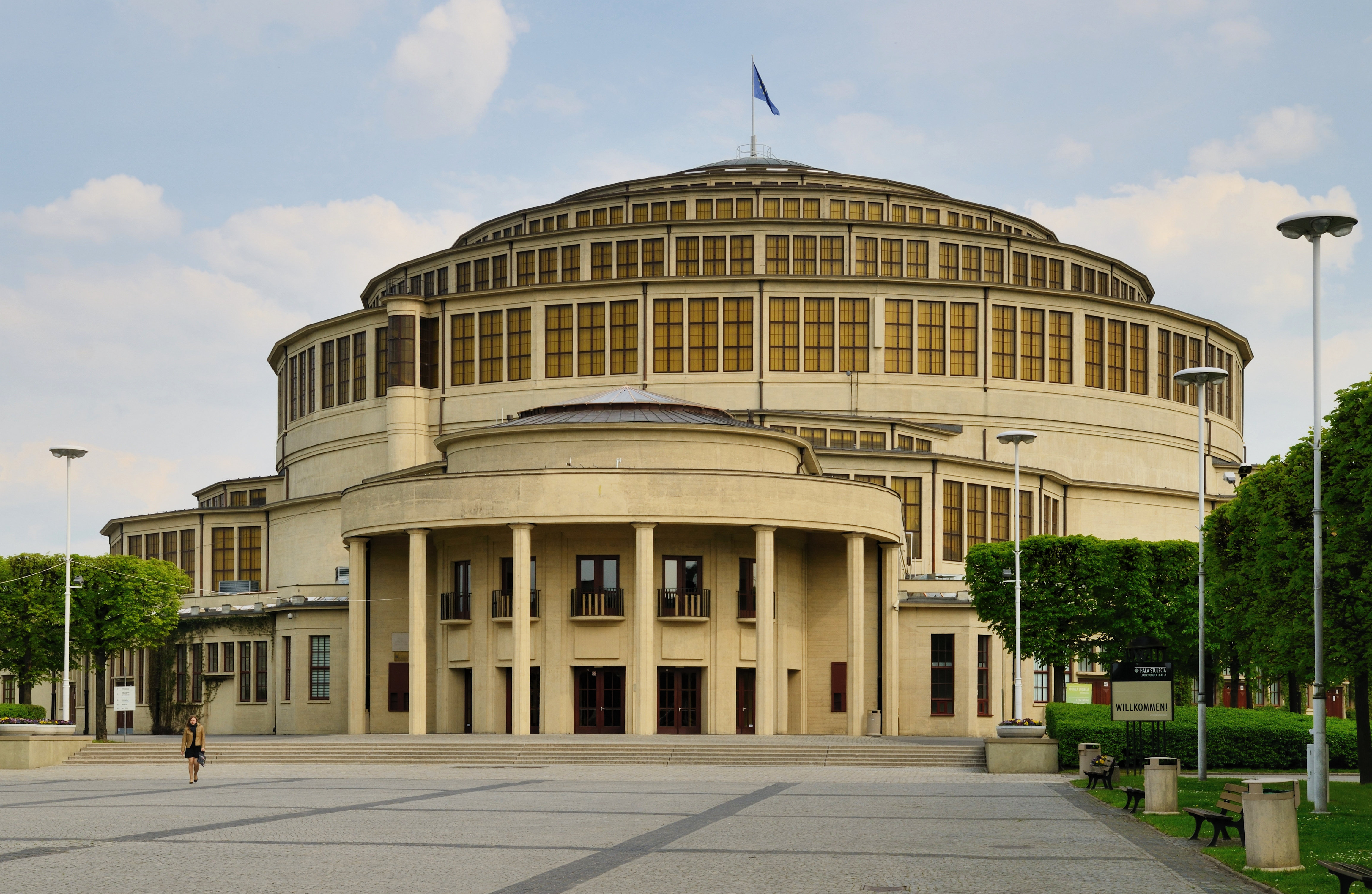 Centennial Hall in Wrocław, Poland